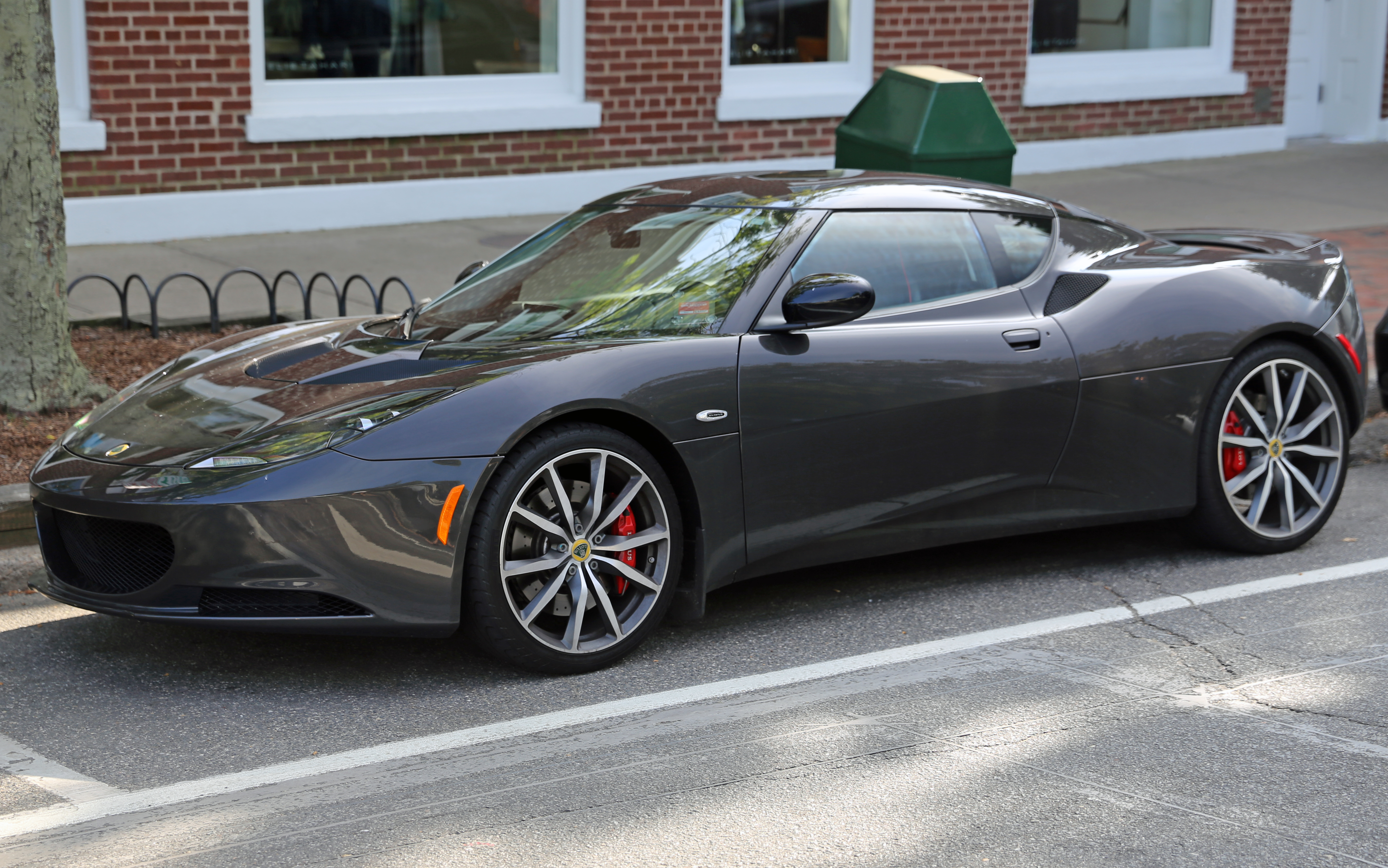 In East Hampton, on dealer plates. Looks pretty dramatic in real life, in spite of the atttention shy paint choice.